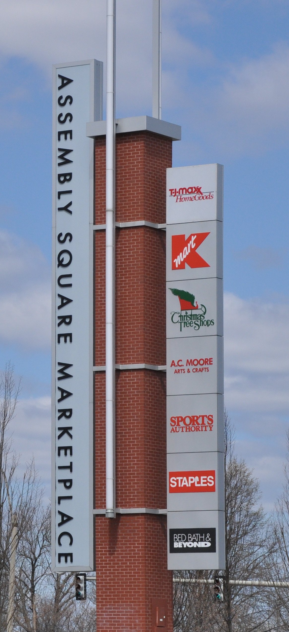 Assembly Square Marketplace in Somerville, Massachusetts.